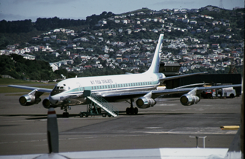 Last days of the first generation jets